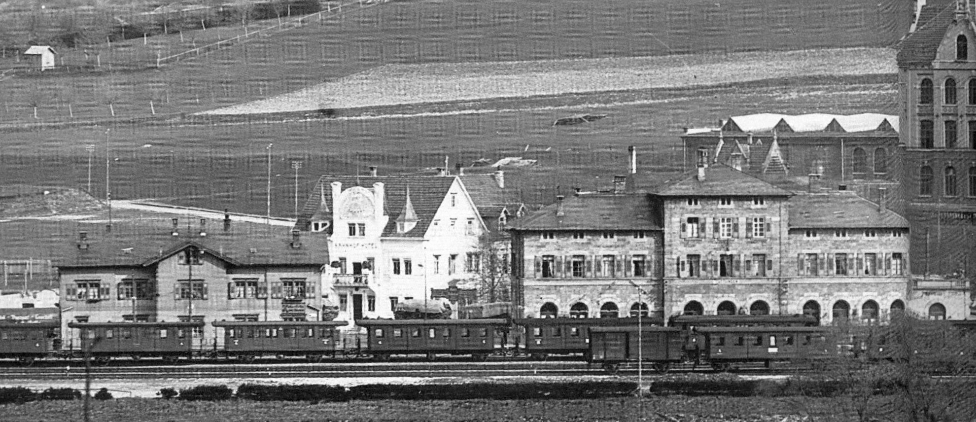 former train station of Tuttlingen, Germany in 1908